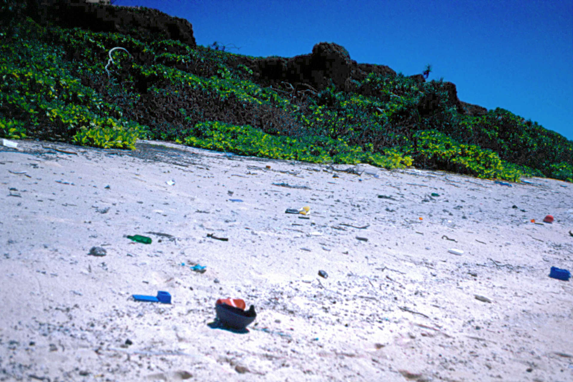 Marine debris on the beach of Henderson Island, Pitcairn Islands